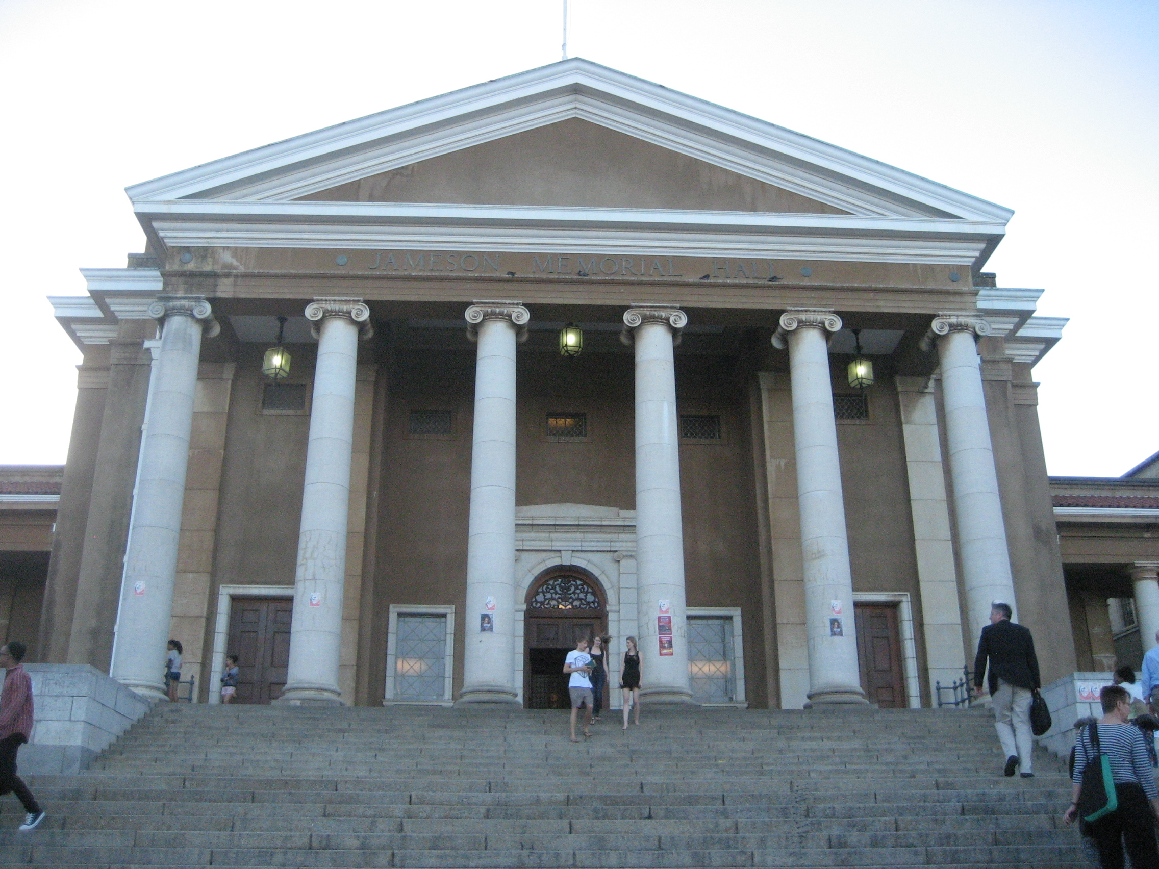 Jameson Memorial Hall, Cape Town University (South Africa)